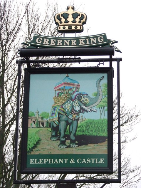 Elephant and castle pub sign Elephant and castle pub sign Hospital road Bury St.Edmunds Suffolk.